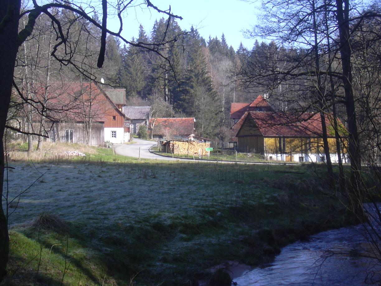 Former smithy in the Rot valley near Mainhardt, Germany